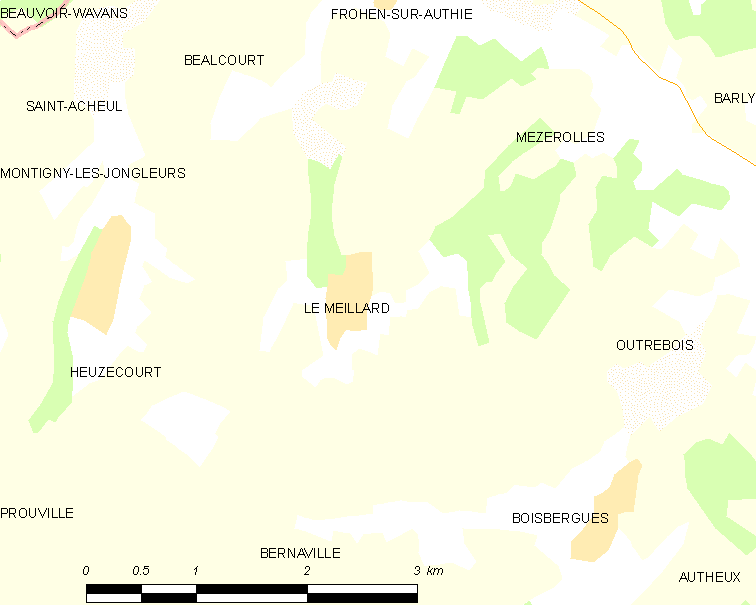 Map of French municipality Le Meillard